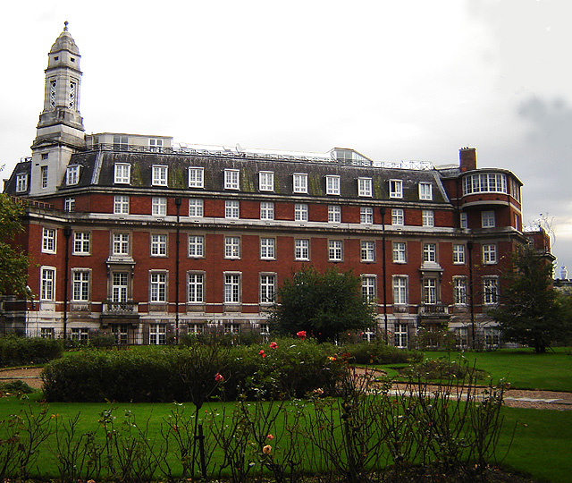 Metropolitan Water Board, later Thames Water Board, HQ Building, Rosebery Avenue, Finsbury, Islington, London. Now residential. 5 November 2005. Photographer: Fin Fahey.